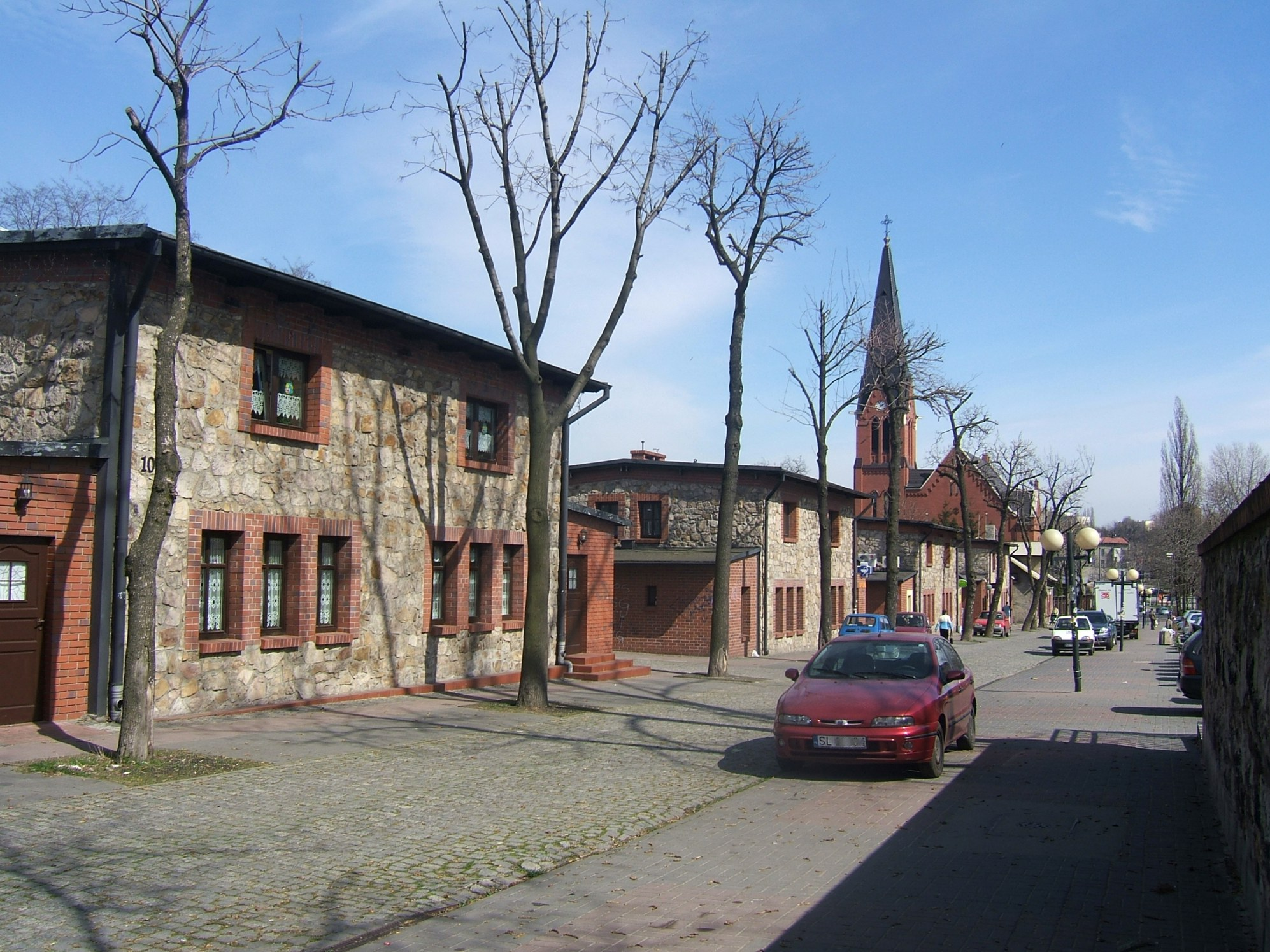 The Ficinus Colony in Wirek, a district of Ruda Śląska.